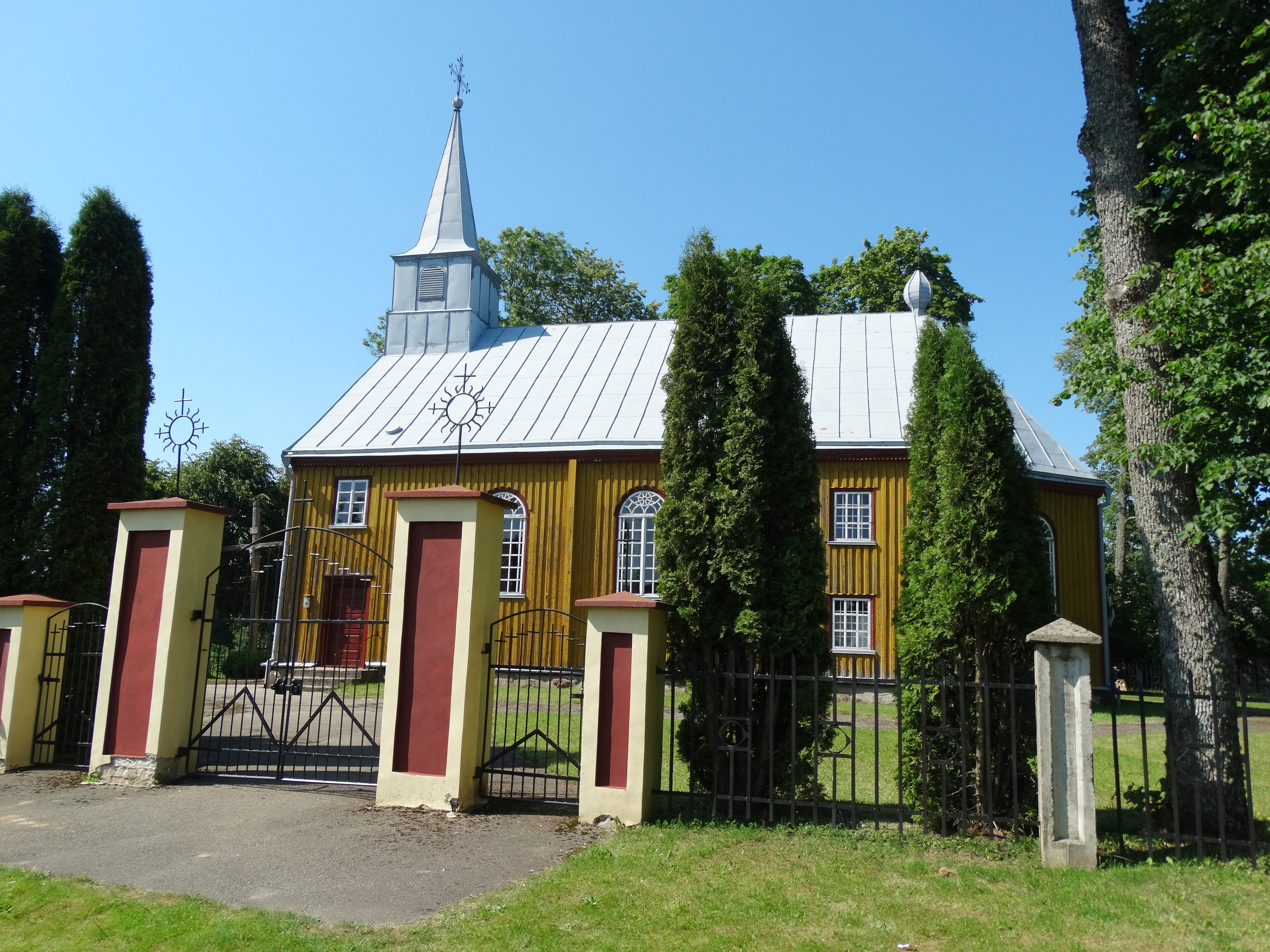 Roman Catholic Church, Žlibinai, Plungė District, Lithuania